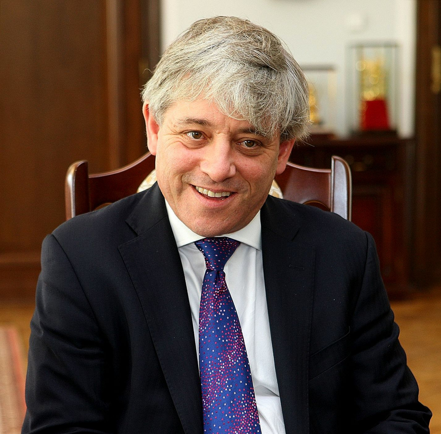 Speaker of the House of Commons John Bercow in the Polish Senate